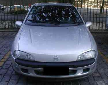 Front picture from the Chevrolet Tigra depicting the different Chevrolet emblem in place of the Opel emblem of the Opel Tigra. The Brazilian GM subsidiary is Chevrolet, thought the cars are also from/based on the Opel ones.